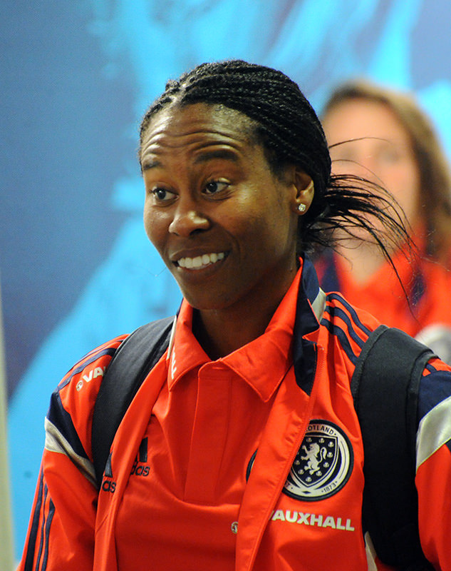 Ifeoma Dieke after World Cup qualifying match against Sweden in September 2014.